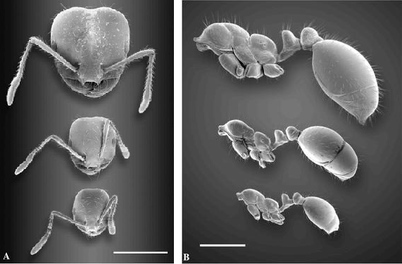 Anatomical differences of S. invicta workers. The image has been scaled and modified slightly to fit with the corresponding image (right).